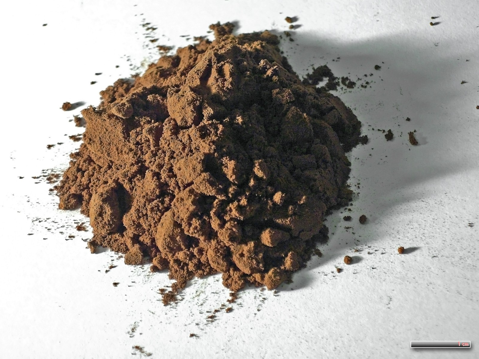 Cocoa, Cocoa powder, on a sheet of paper, with scale / measurement